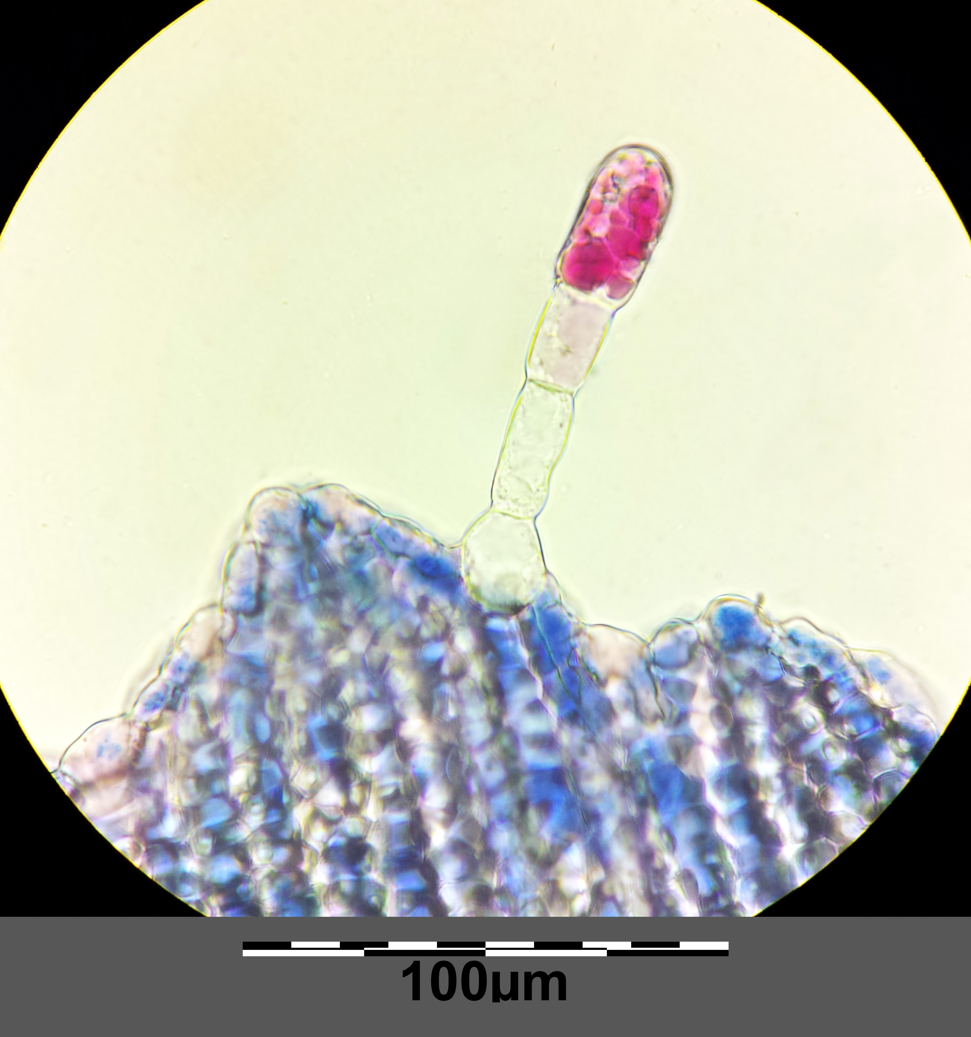 Edge of petal with glandular hairs Taxonym: Anagallis foemina ss Fischer et al. EfÖLS 2008 ISBN 978-3-85474-187-9 Location: Donaupark, Vienna-Donaustadt - ca. 160 m a.s.l. Habitat: gap in road surface